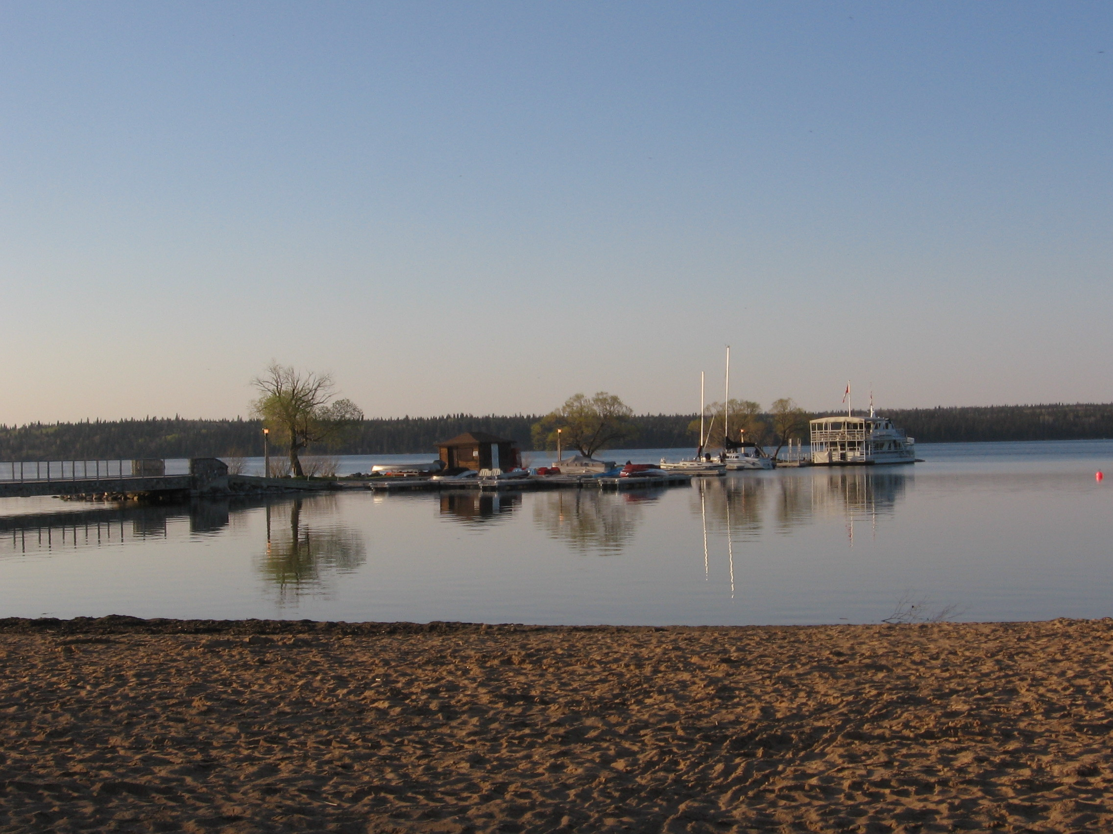 Clear Lake main beach & view of pier